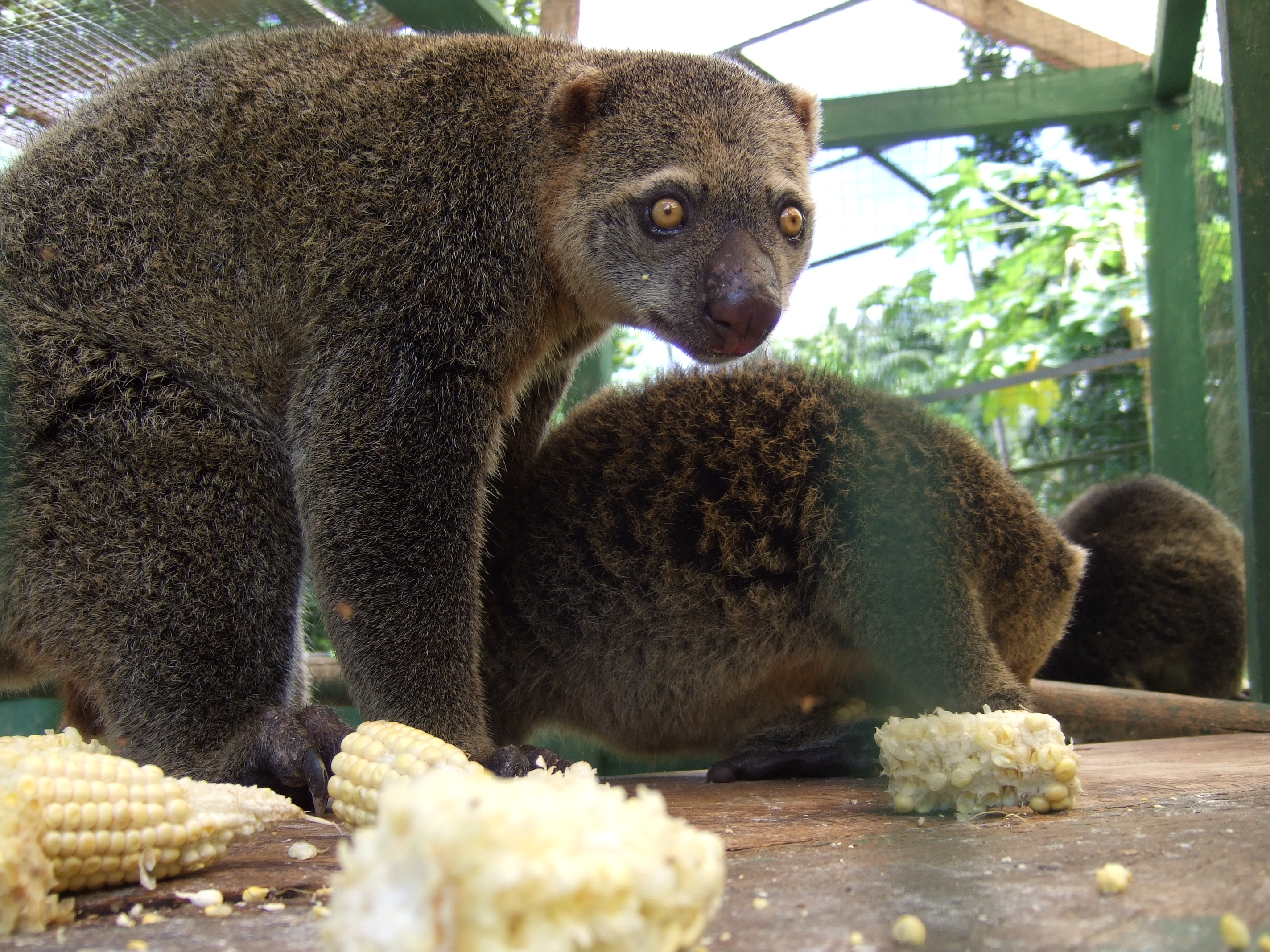 Sulawesi Bear Cuscus Ailurops ursinus, Grand Naemundung Animal Collection, Tandurusa, North Sulawesi, Indonesia